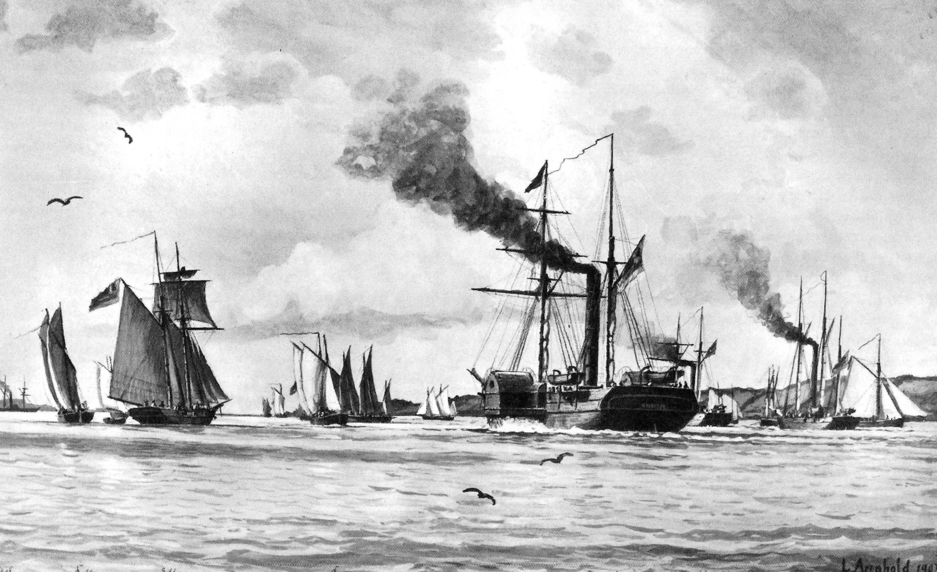 The Schleswig-Holstein flotilla approximately 1850. Painting by naval artist Lüder Arenhold (1854-1915) round about 1905. In the center Man-of-war side wheeler BONIN, left Man-of-war schooner ELBE, right from BONIN gunboat VON DER TANN